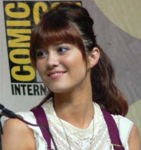 Mary Elizabeth Winstead at Comic Con (San Diego)